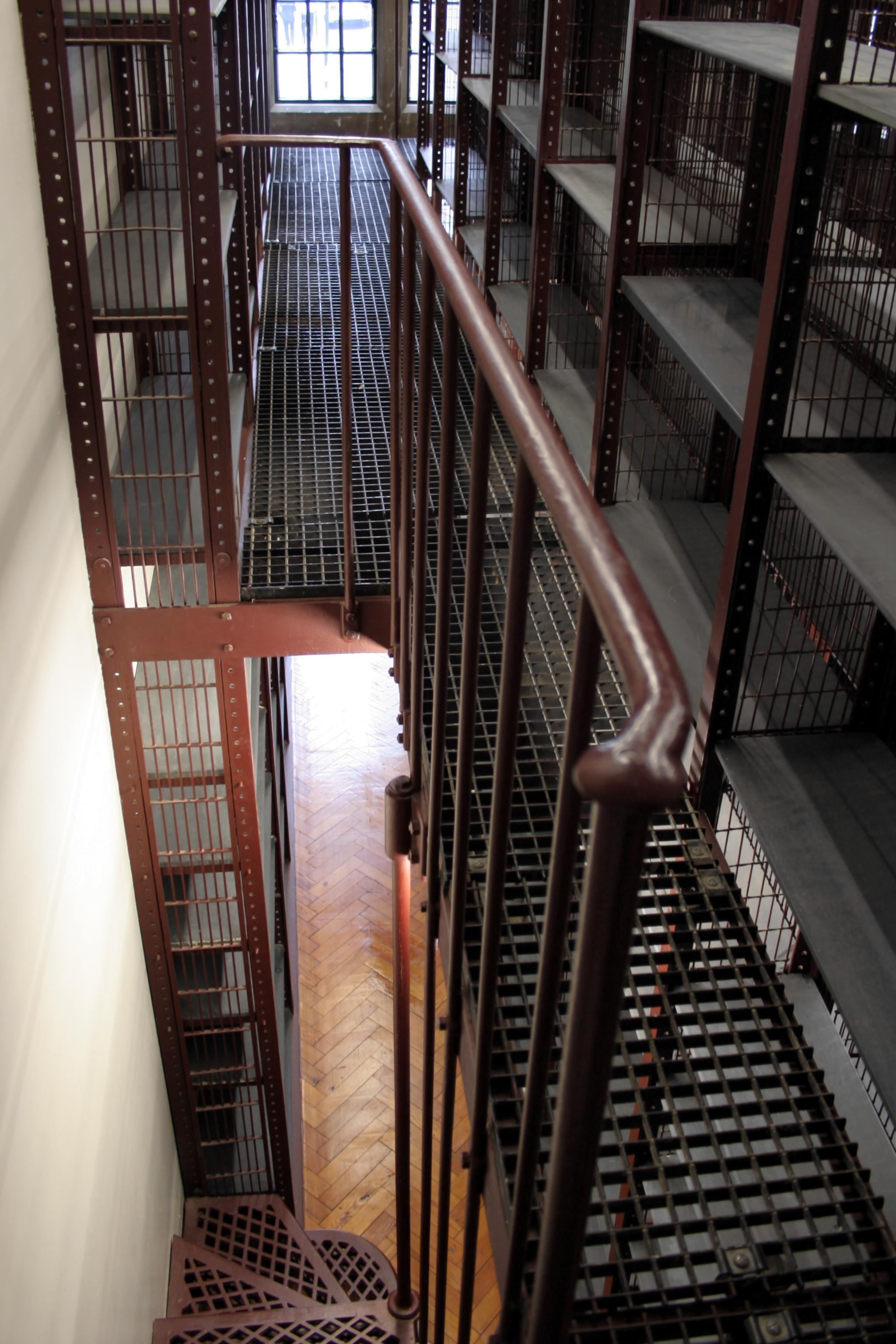 An original cell of the Public Record Office at the Maughan Library, King's College London in September 2013.